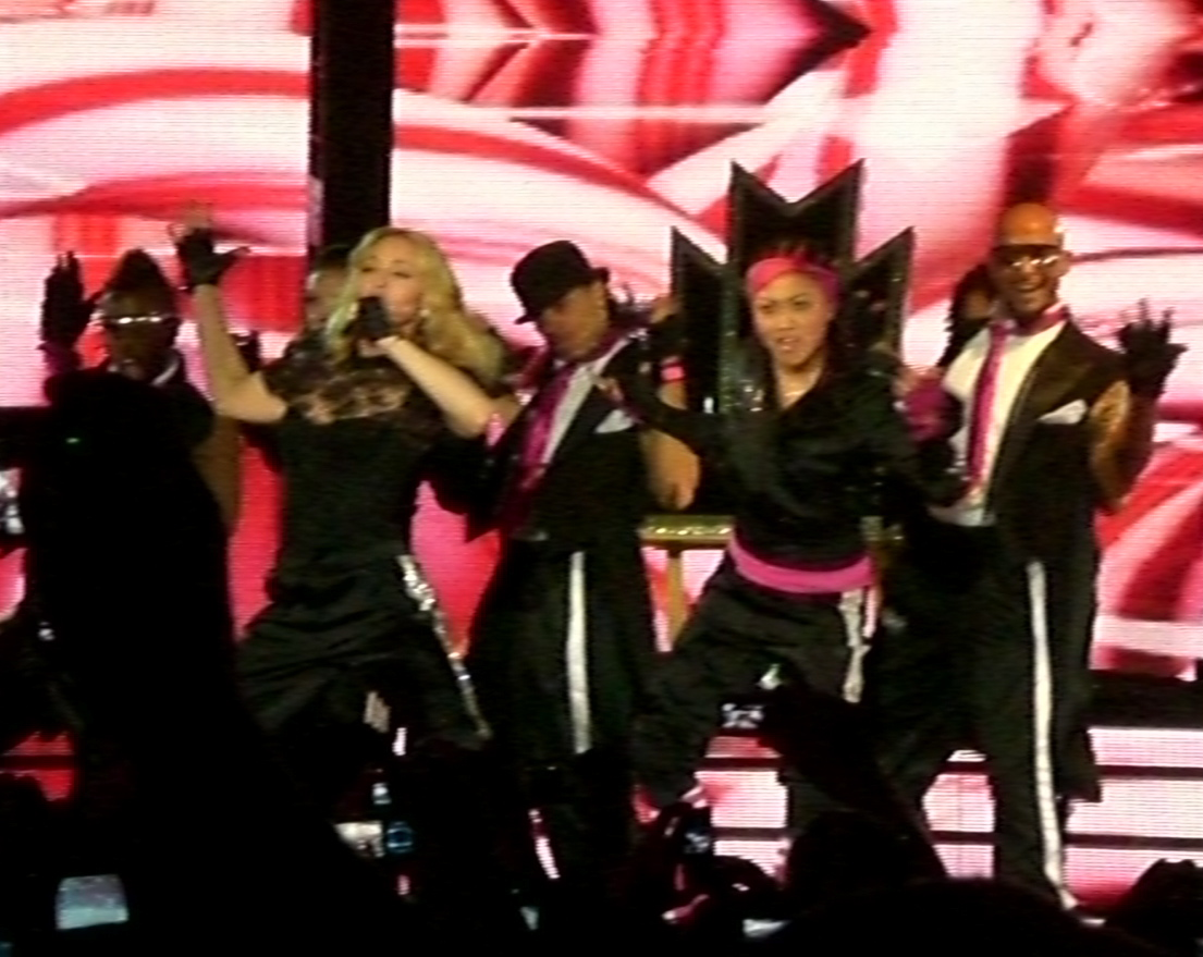 Madonna, Radio 1's Big Weekend, Mote Park, Maidstone